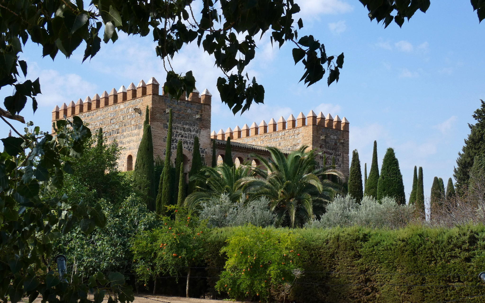 Este palacio, de estilo mudéjar, se construyó en el siglo XIII junto al río Tajo, sobre las ruinas de otro palacio árabe más antiguo.